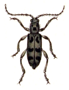 Chlorophorus herbstii, from Calwer's Käferbuch, Table 37, Picture 8. Taxonomy was updated to 2008, using mostly the sites Fauna Europaea and BioLib. Please contact Sarefo if the determination is wrong!